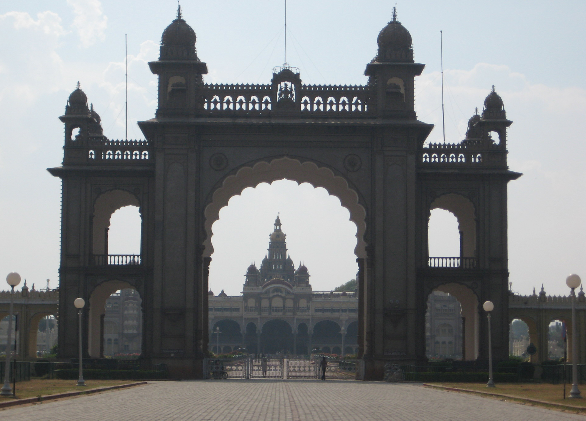 Mysore Palace main gate.